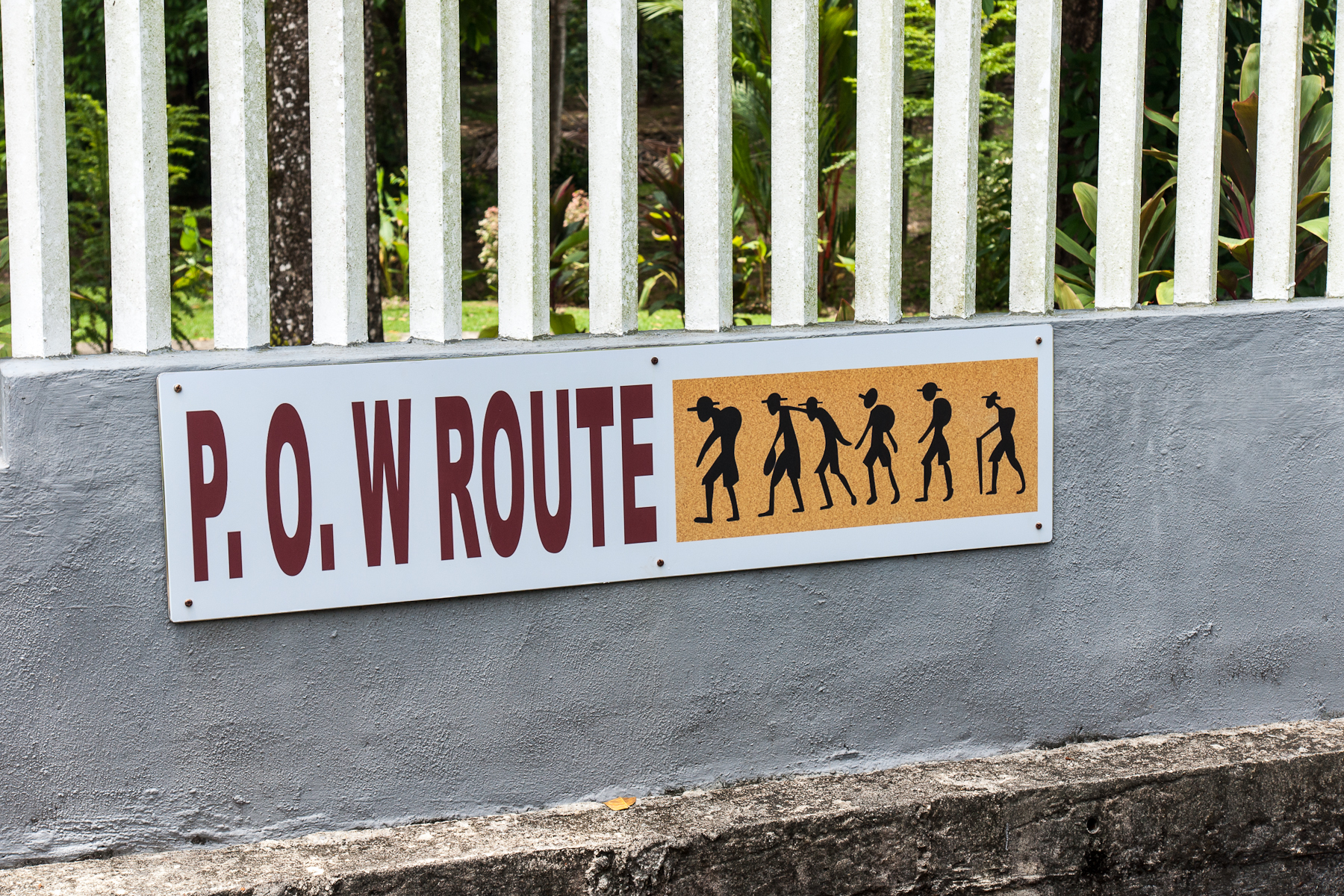 Sandakan Memorial Park; P.O.W. Route Sign